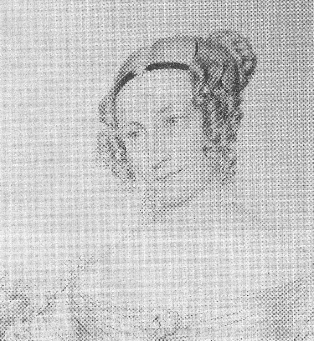 Portrait of Hon. Jane Elizabeth Allanson-Winn, daughter of George Allanson-Winn, 1st Baron Headley (1725–1798), and wife of John Knight (d.1850), who pioneered the agricultural development of the former royal forest of Exmoor, Devon and Somerset, England. Scrapbook of Isabella Knight, her daughter. Edward Lear Collection, British Museum Prints and Drawings Collection